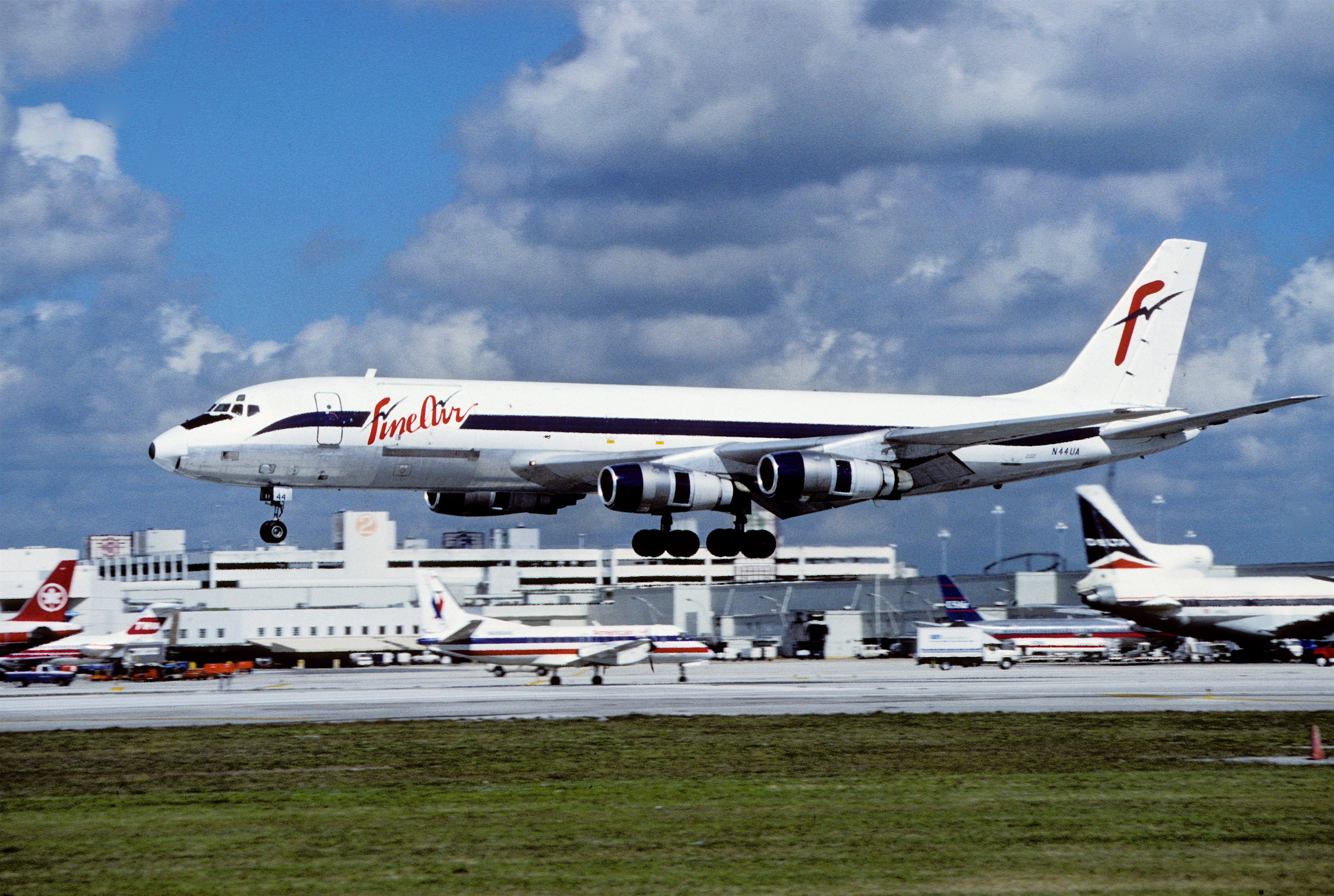 Fine Air DC-8F-54; N44UA@MIA, January 1994/ AYH